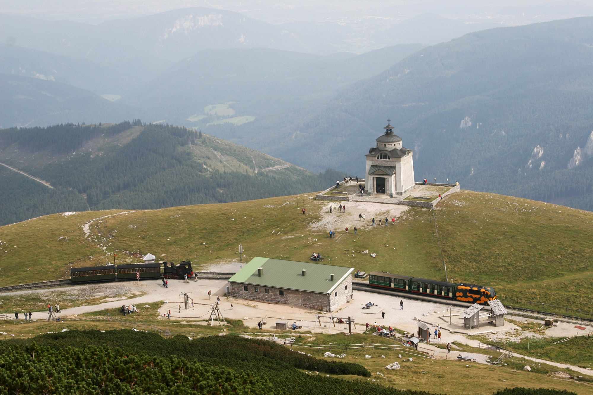 Hochschneeberg summit station and empress Elisabeth memorial church. In the station a steam train and a Salamander traction unit with a rake of conventional carriages can be seen.